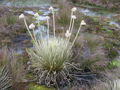 A photo of the newly discovered(2013) plant(flower) species, Coespeletia palustris.